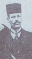 Serbian Chetnik commander (vojvoda) Jovan Babunski.